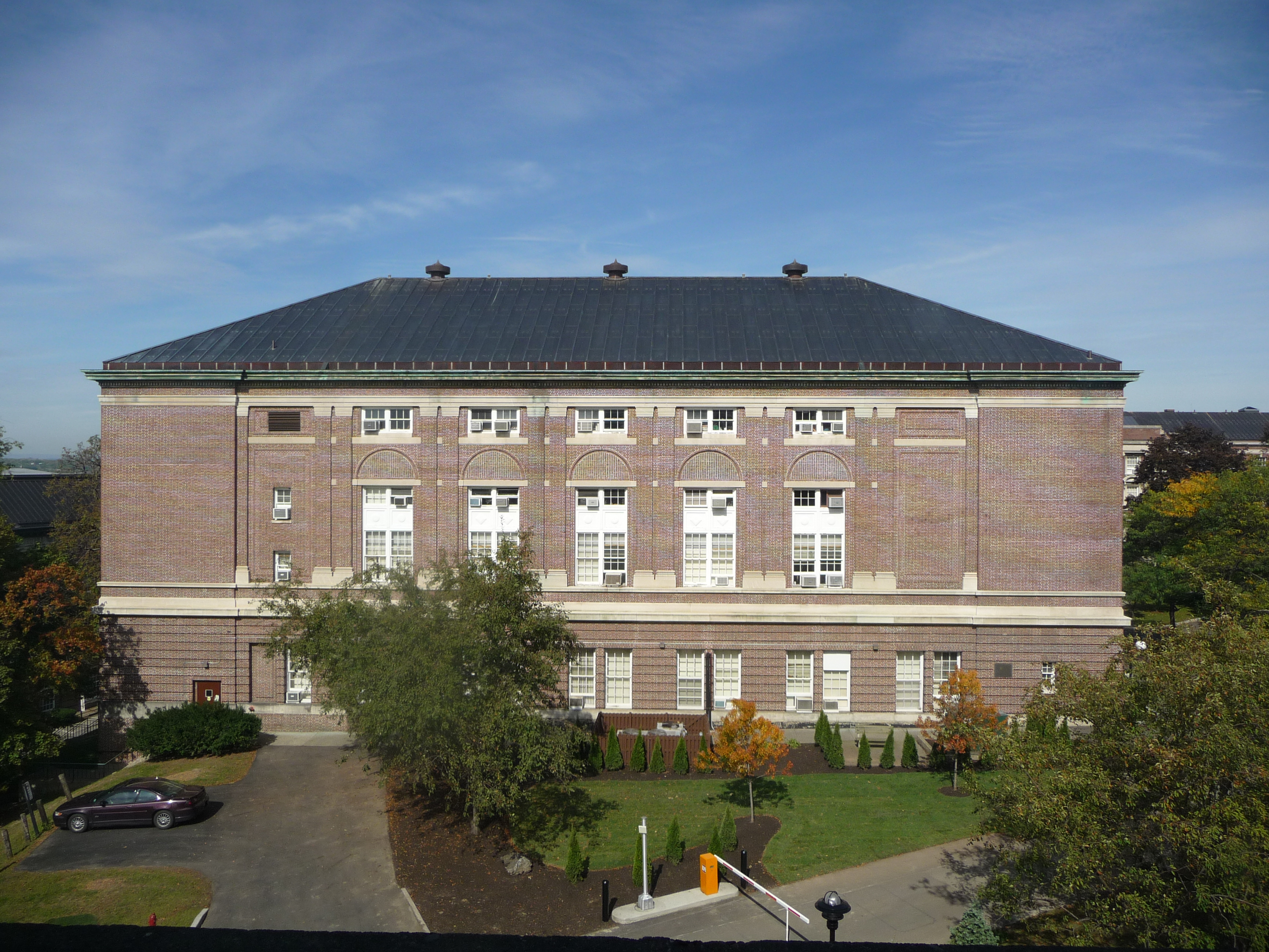 Amos Eaton Hall on the campus of Rensselaer Polytechnic Institute in Troy, New York